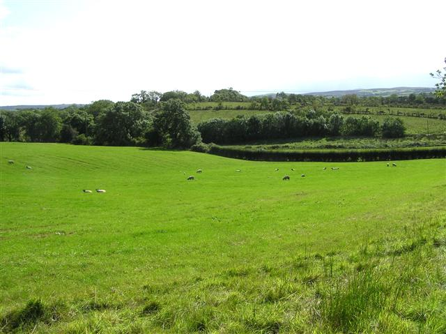 Tattycor Townland Looking south